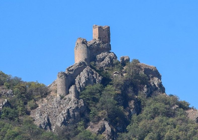 Chirag Gala seen from the south.